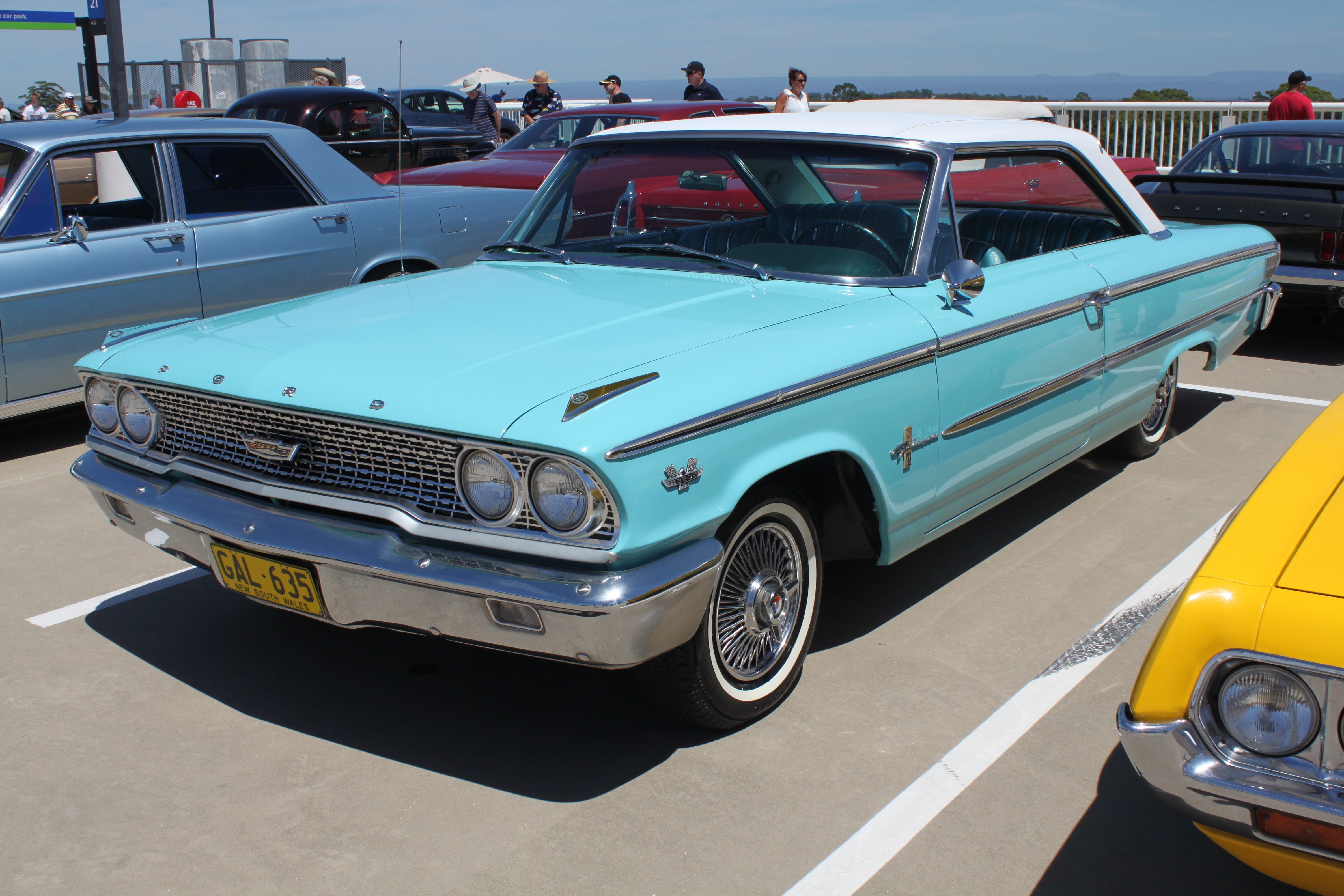 American Car Show, Castle Hill, NSW 2015